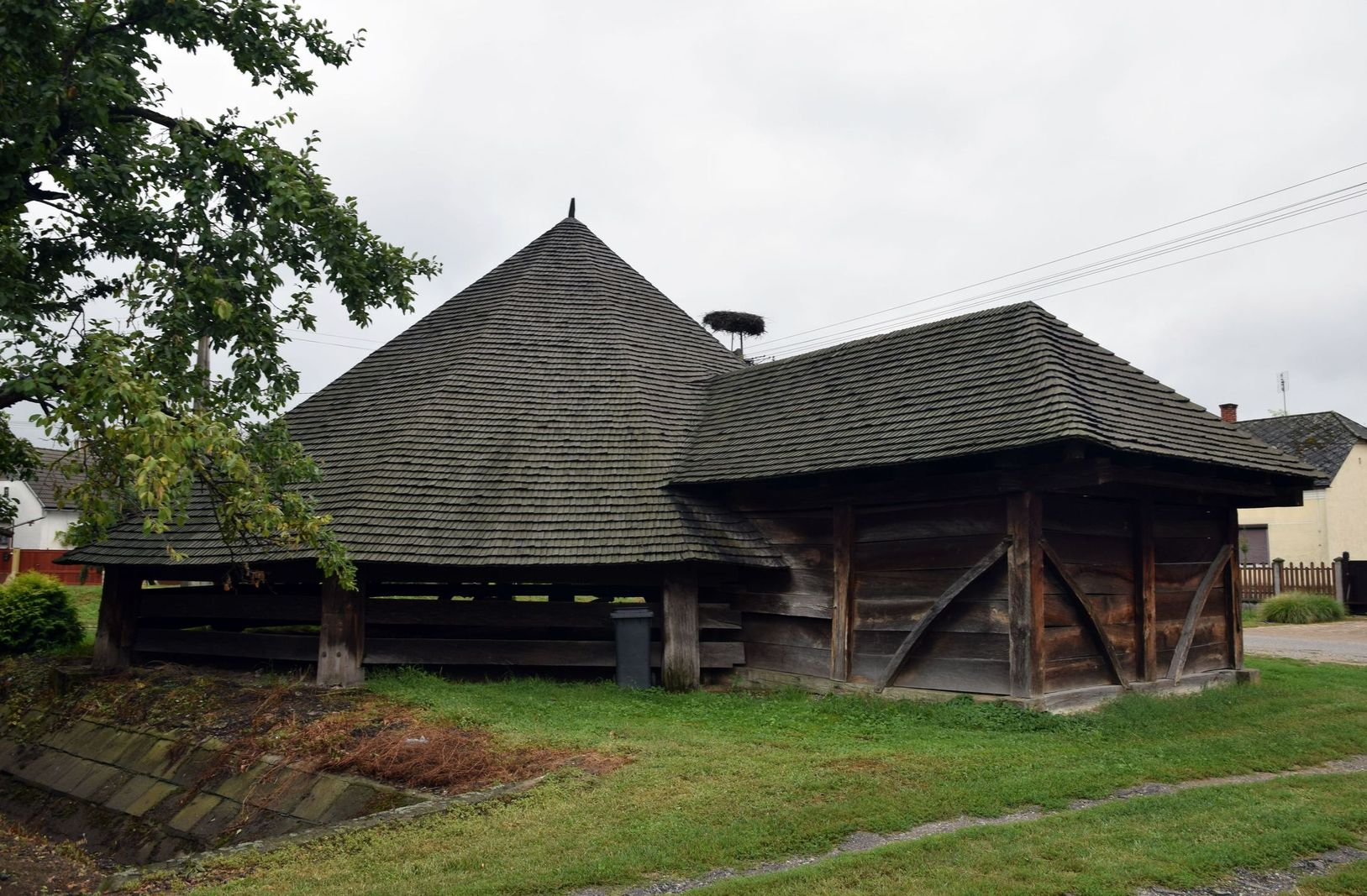 Tarpa, horse mill